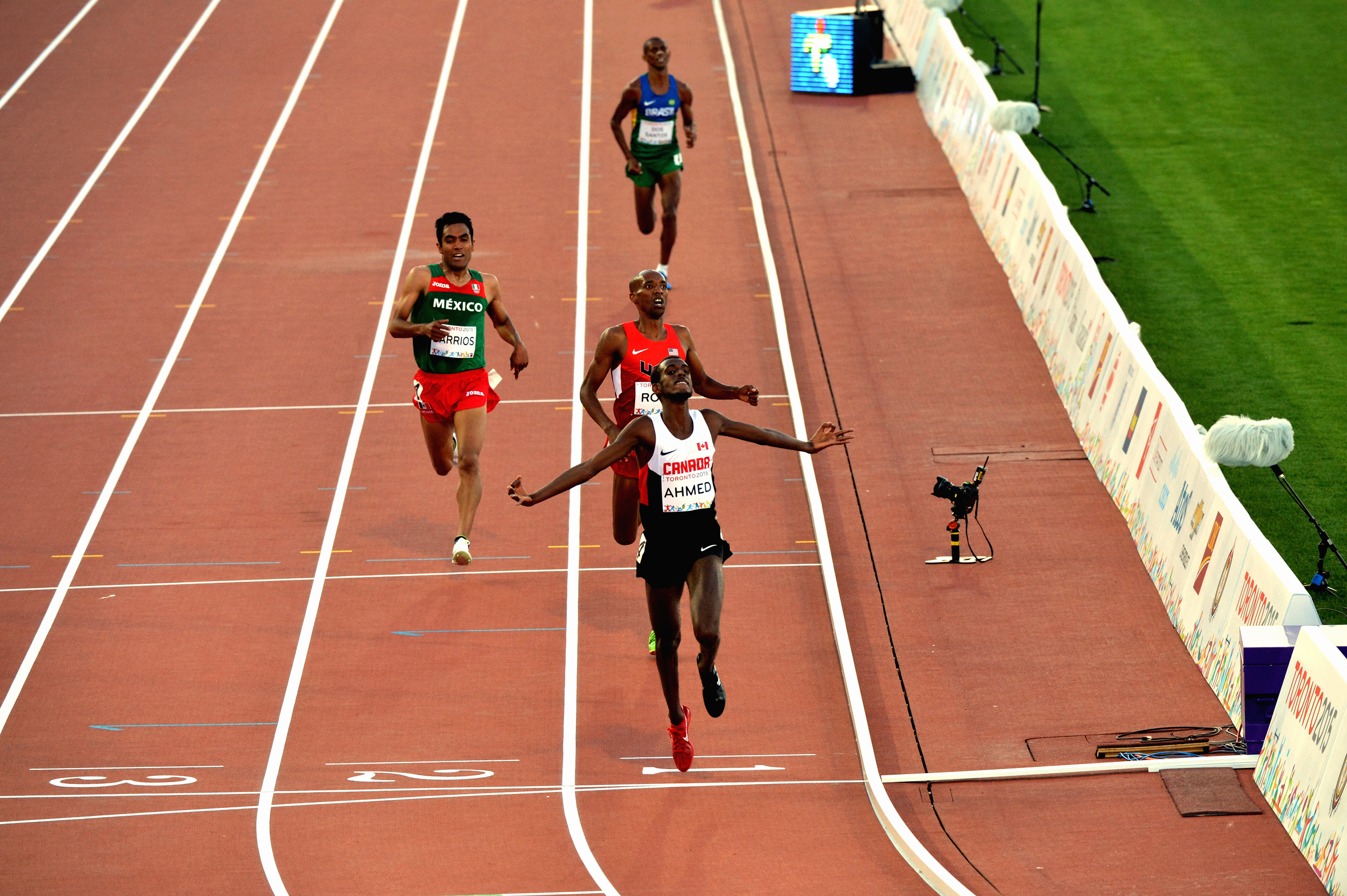 Spc. Aron Rono of the U.S. Army World Class Athlete Program finishes second in the men's 10,000-meter run at the 2015 Pan American Games in Toronto on July 22 with a time of 28 minutes, 50.83 seconds. Canada's Ahmed Mohammed won the race in 28:49.96. Juan Luis Barrios (28:51.57) of Mexico took the bronze medal, followed by fourth-place finisher WCAP Spc. Shad Kipchirchir (29:01.55). U.S. Army photo by Tim Hipps, IMCOM Public Affairs